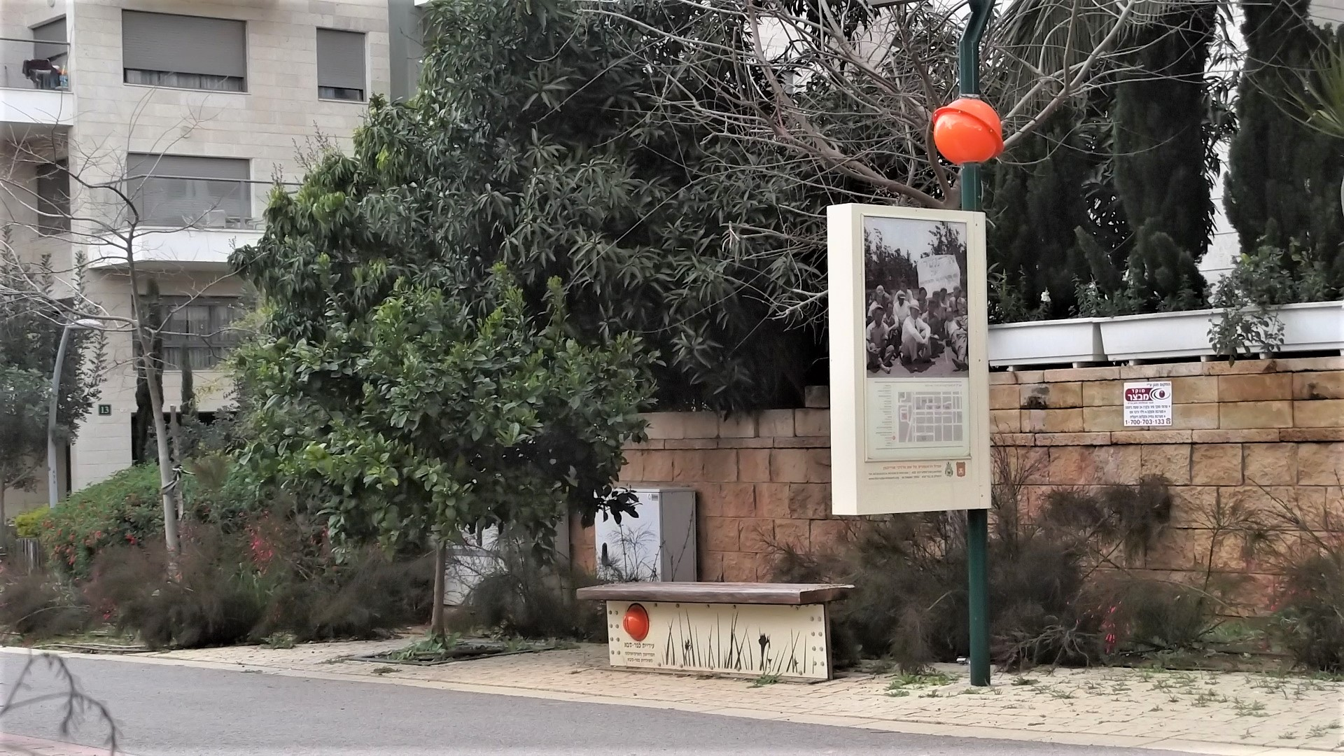 The Founders' Trail, Kfar Saba: site #11 - Citrus Growing - bench and sign - b